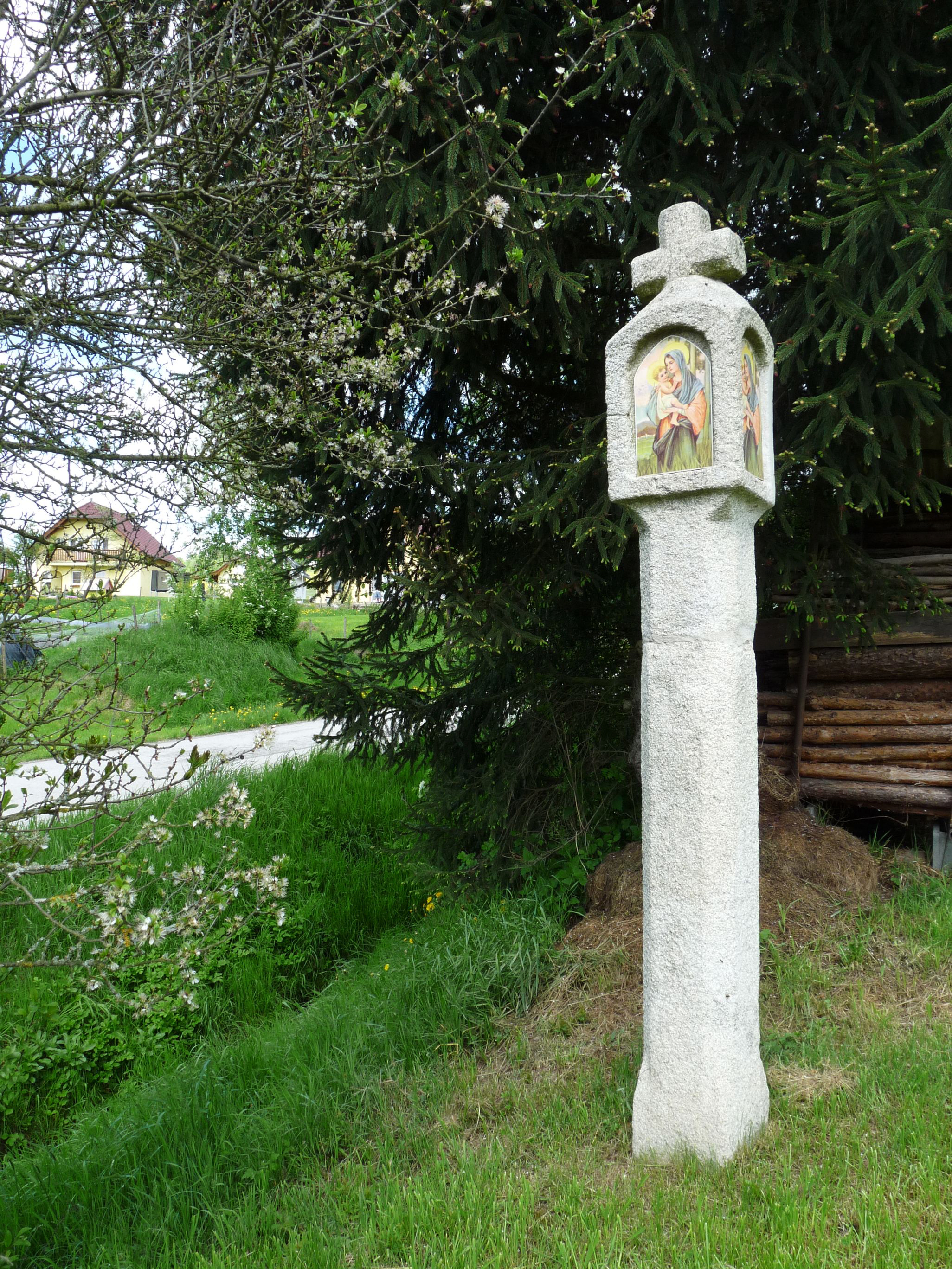 Wayside shrine in the municipality of Bohdalovice, Český Krumlov District, South Bohemian Region, Czech Republic.